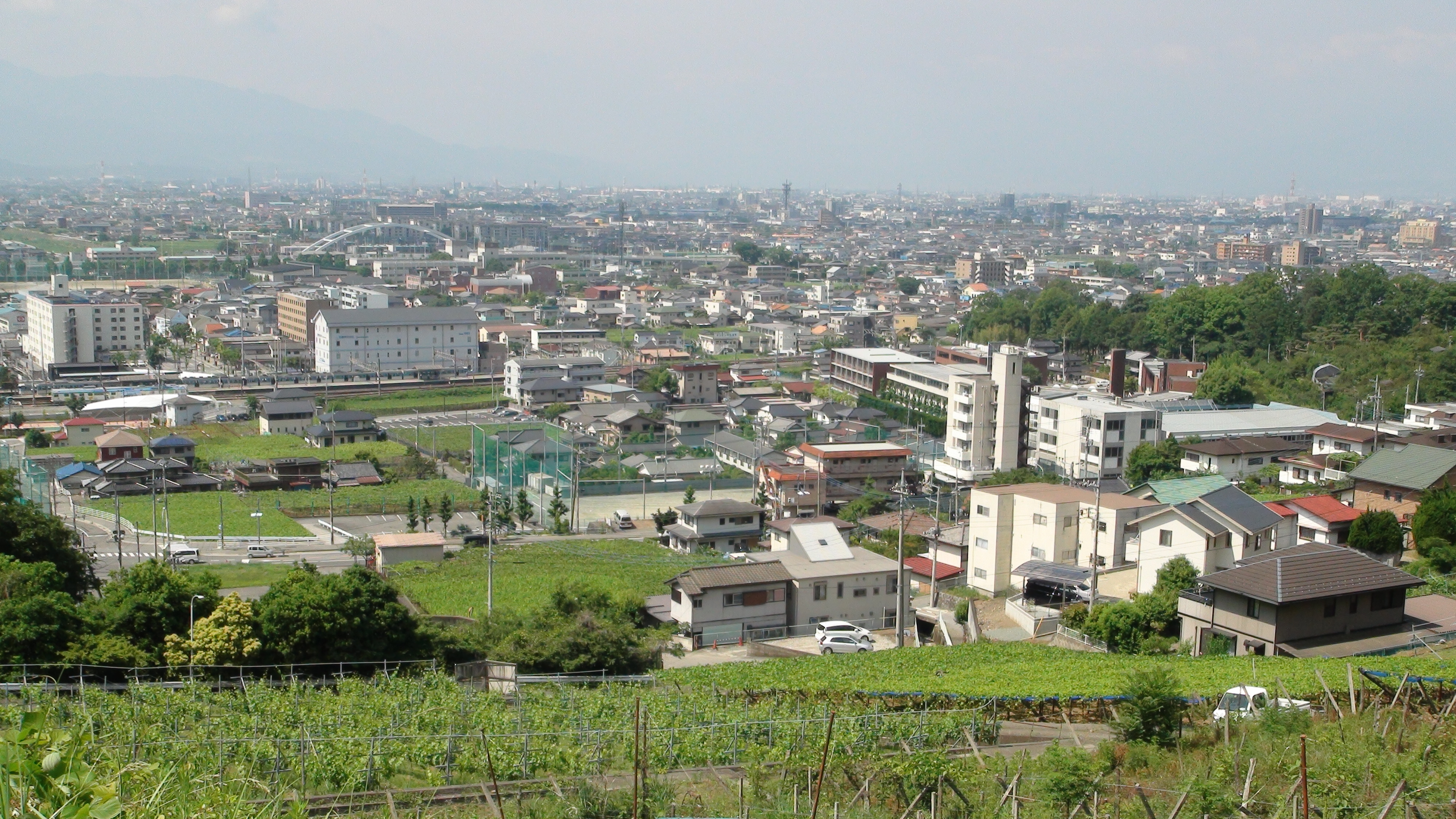 It is a view of Sakaori-area from the Mt.Hachinin